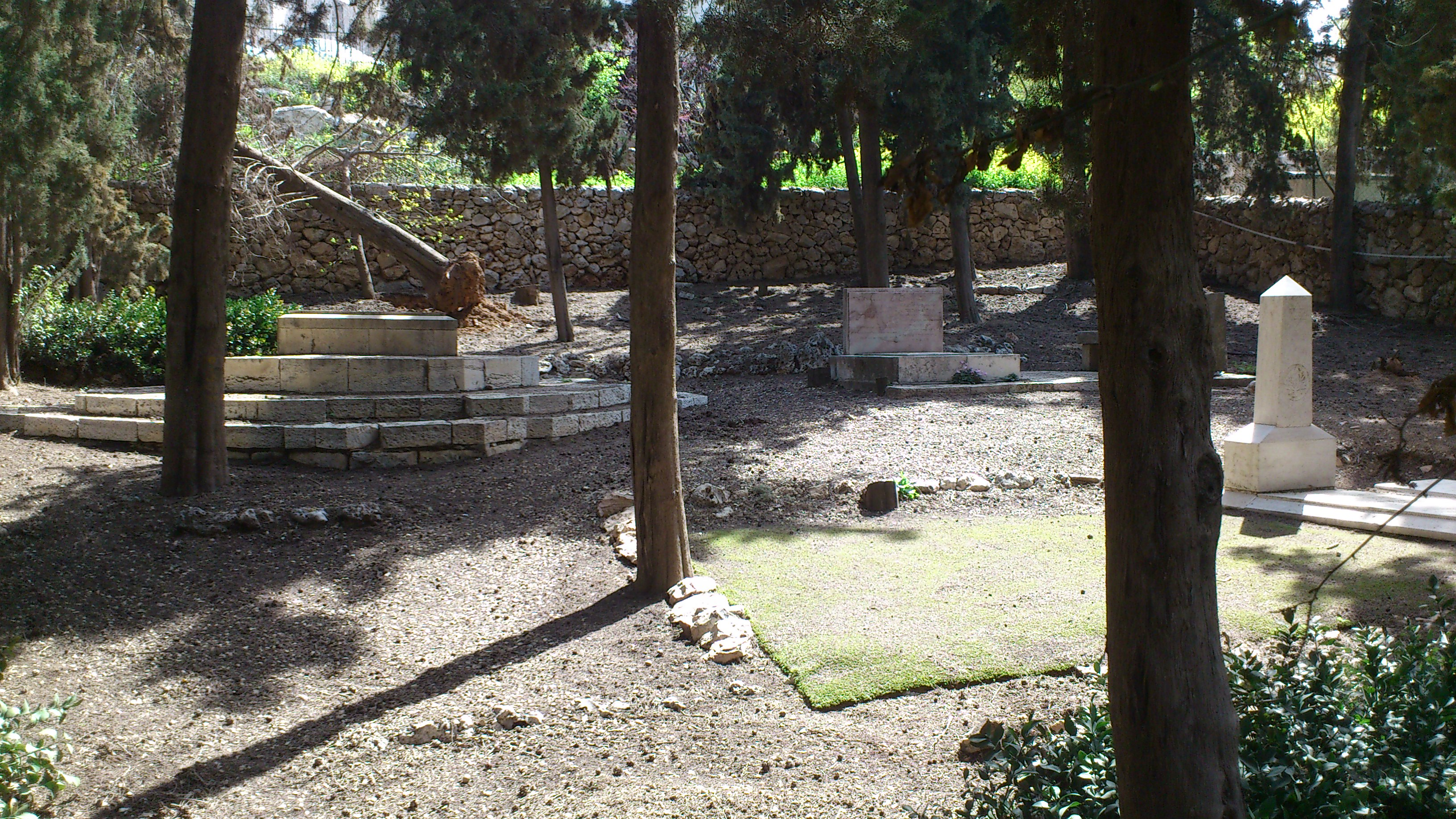 Bentwich family Cemetery